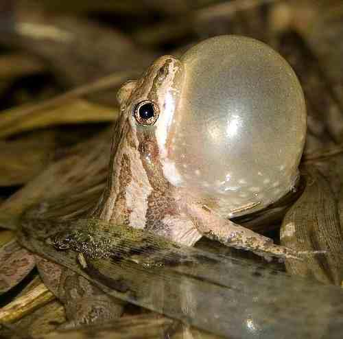 Bear River Migratory Bird Refuge, Utah March 2012 USFWS Another sure sign of Spring...first chorus of Western Chorus frogs were singing late yesterday afternoon from the wetlands around the Education Center parking lot at Bear River Migratory Bird Refuge!